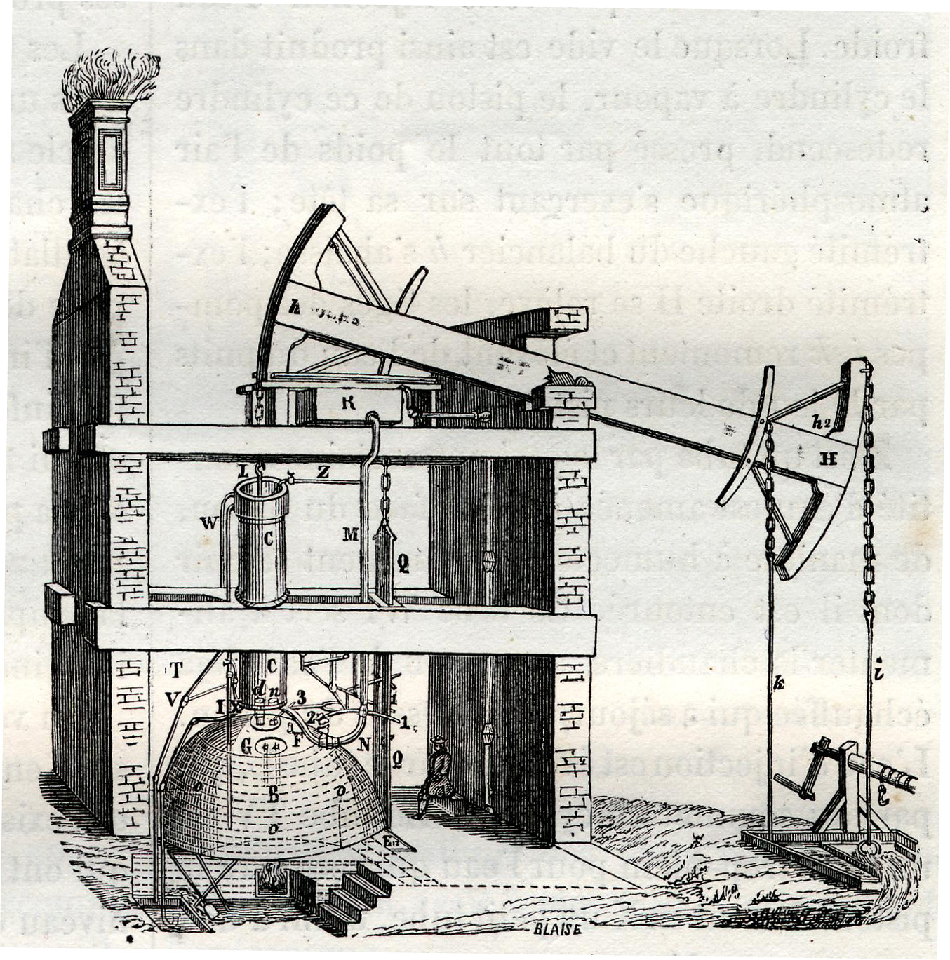 Figuer, Louis "Merveilles de la science" Furne Jouvet et Cie, Paris 1868